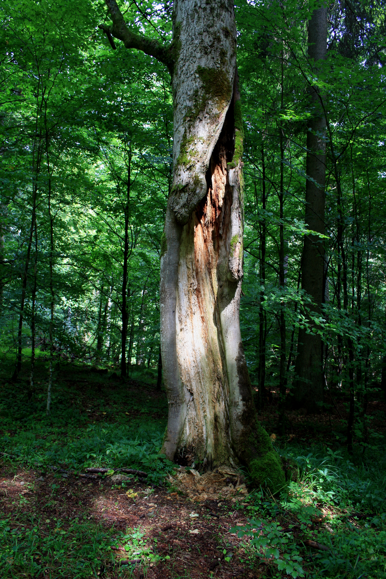 Small forest sanctuary Žofínský prales in Novohradské hory, south Bohemia, Czech Republic